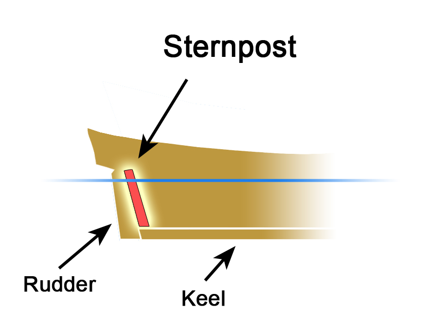 Illustration of the location of a sternpost on a sailing ship